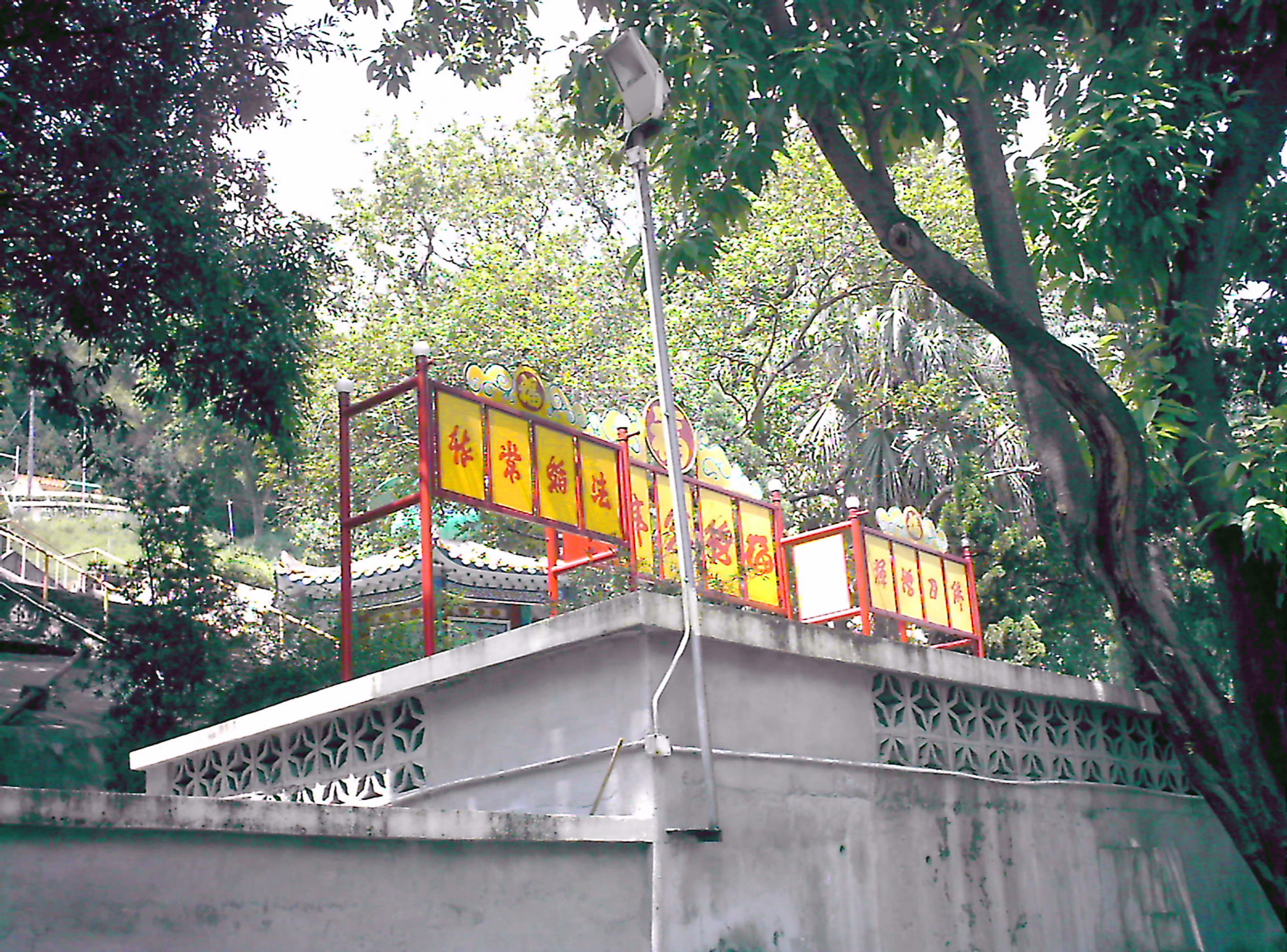 Main Gate, Hong Kong and Kowloon Fuk Tak Buddhist Association 中文（香港）: 港九福德念佛社，山門